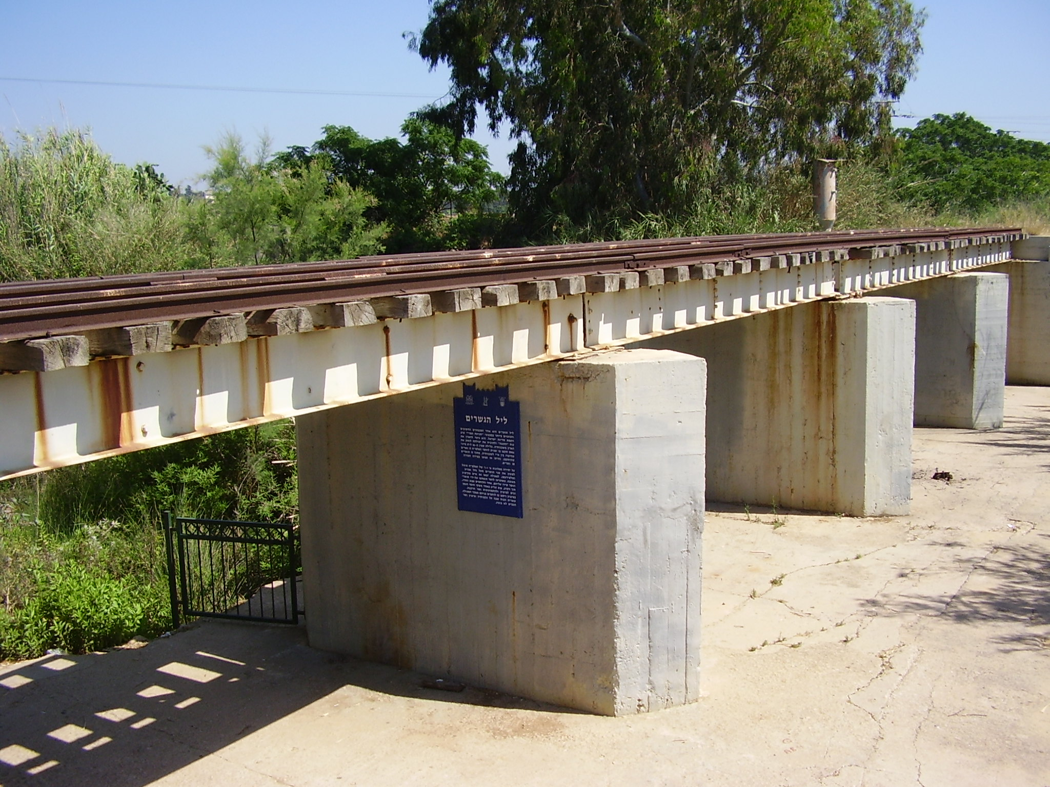 Achzib Railway Bridge, Israel גשר מסילת הרכבת מעל נחל כזיב